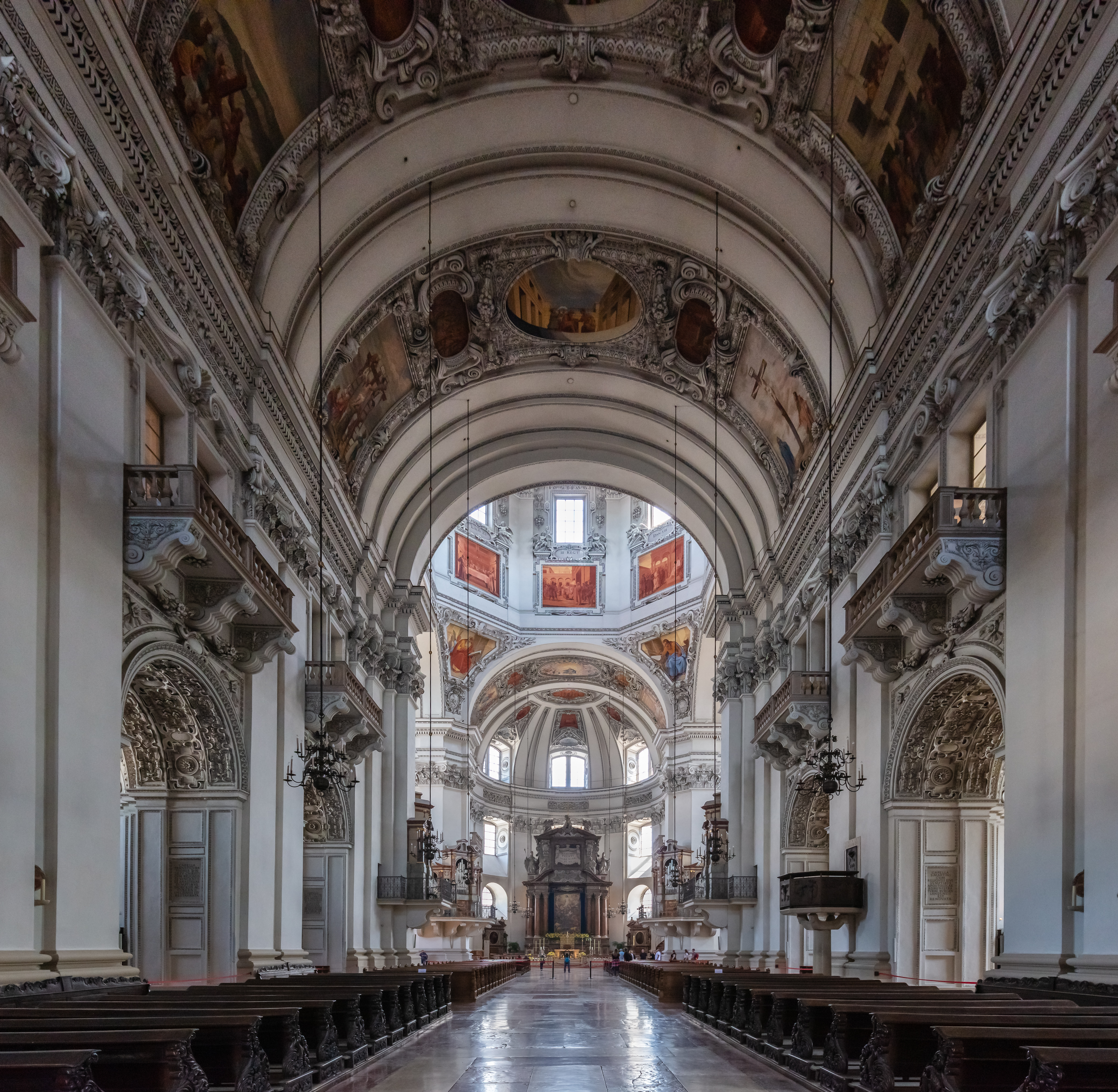 Salzburg Cathedral, Austria